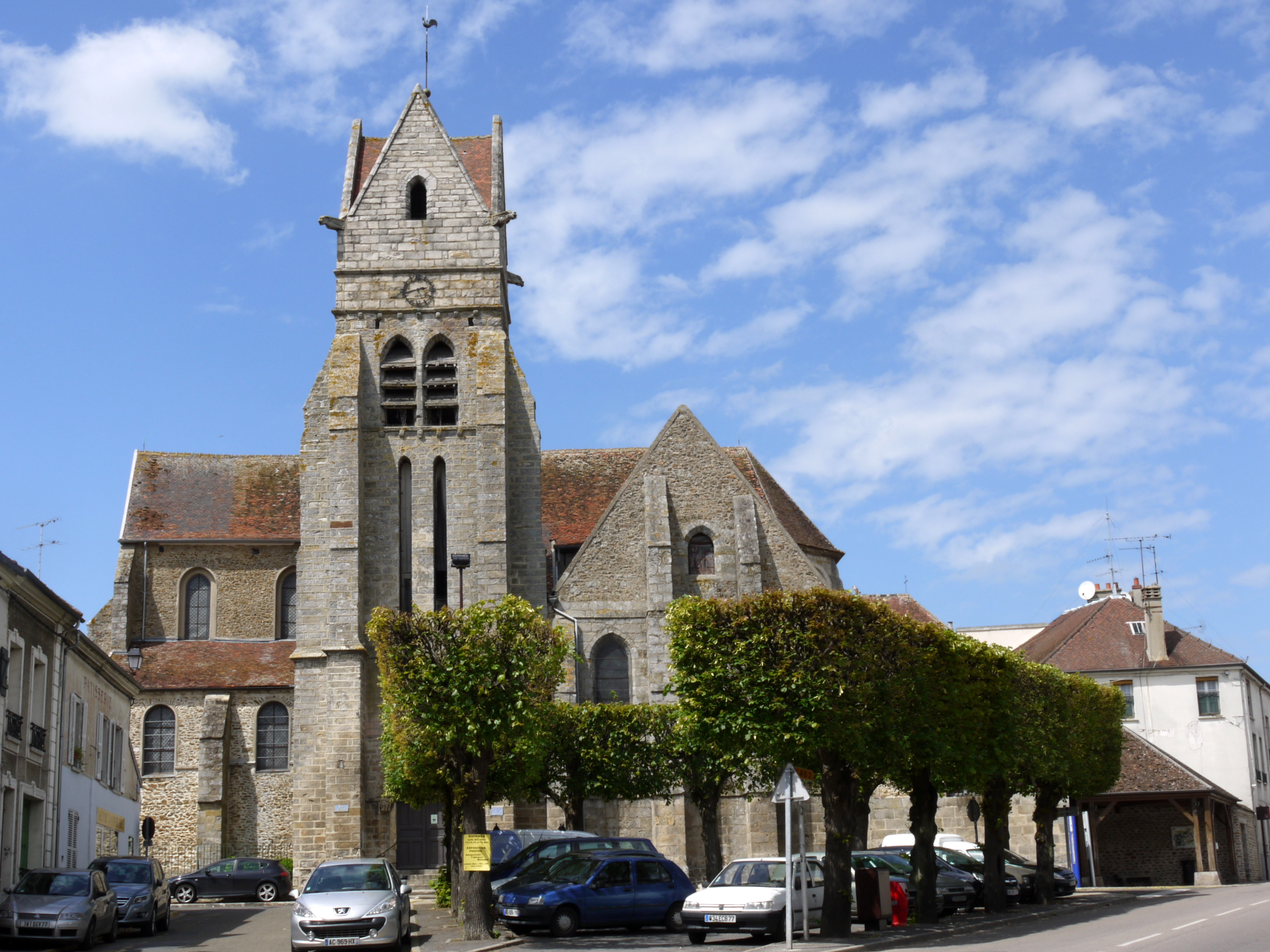 Church of Saint Pierre et Saint Paul, Chaumes en Brie, Seine et Marne France